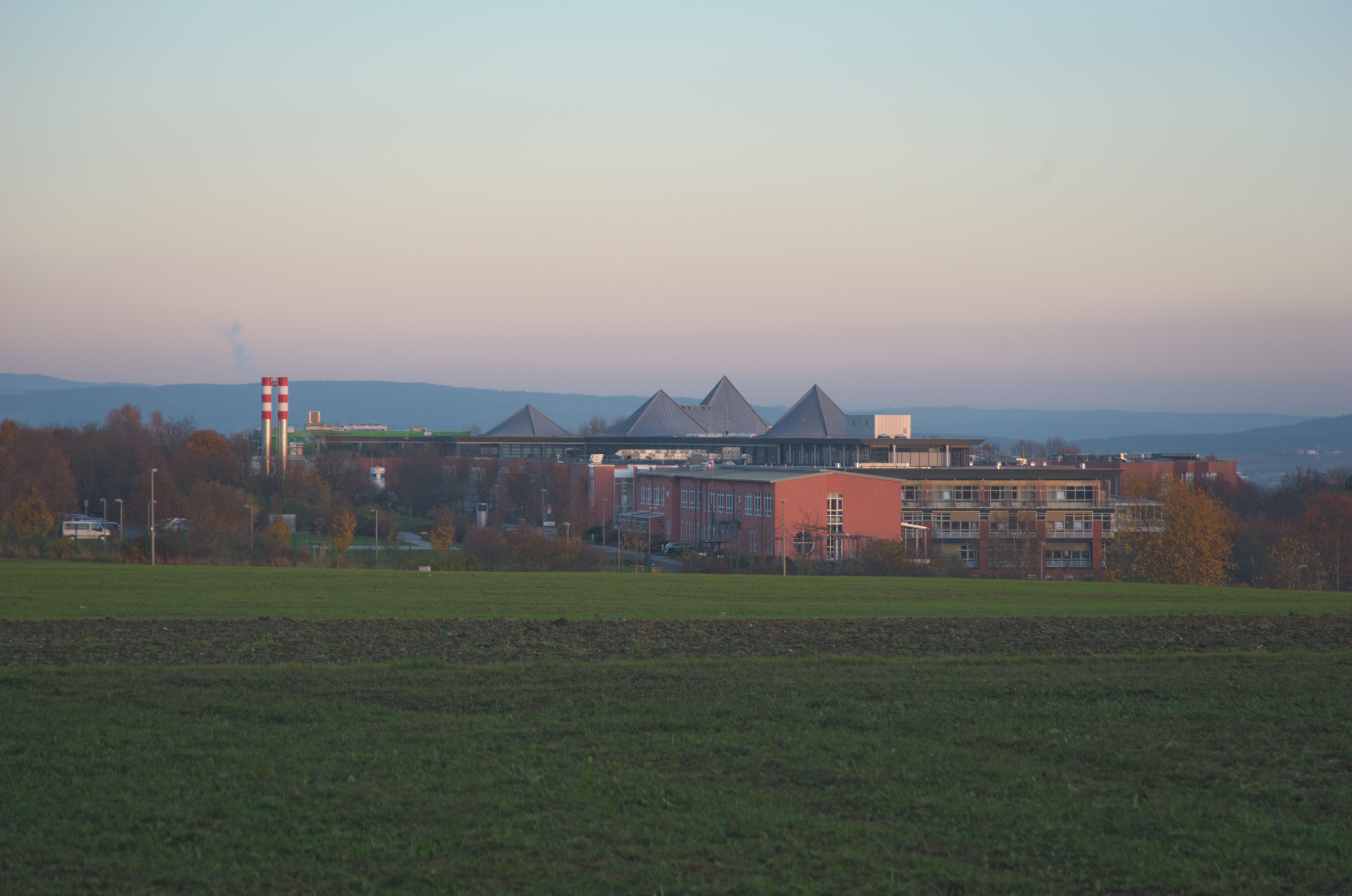 Bayreuth Medical Center, four tented roofs, west facade